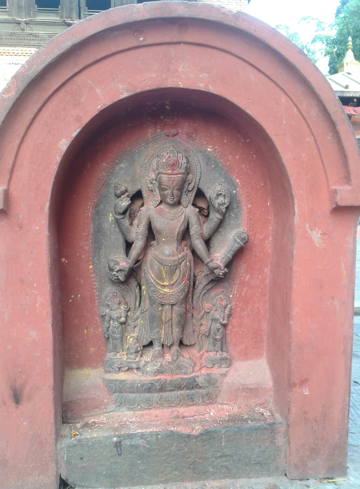 Small temple of devi, made by stone